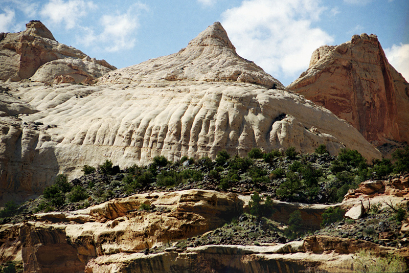 Capitol Reef National Park, Utah, USA